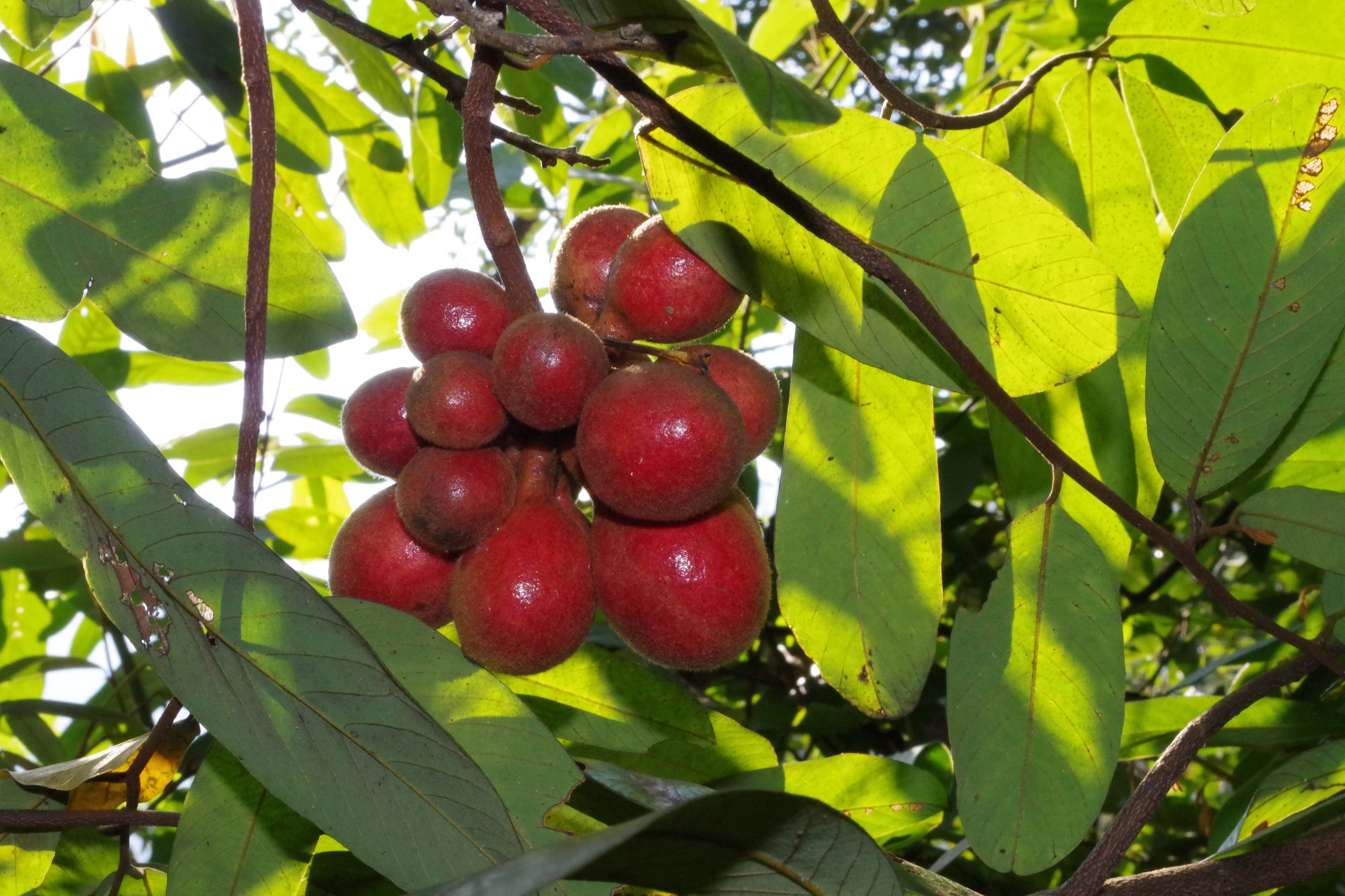 Fissistigma oldhamii in Nanling National Park, South China